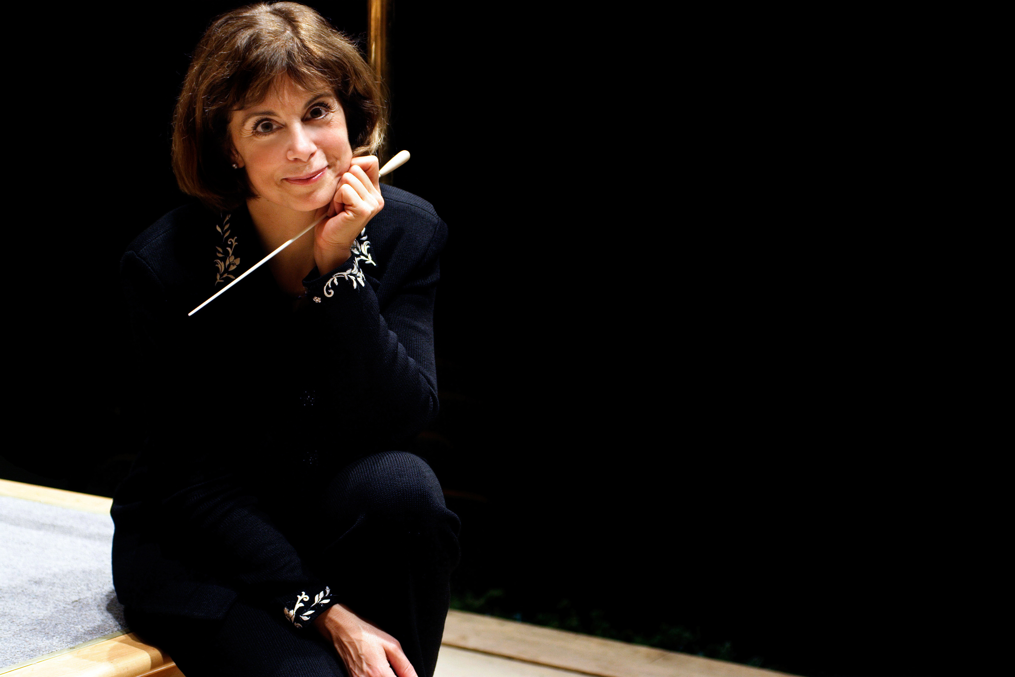 JoAnn Falletta sitting on stage with baton